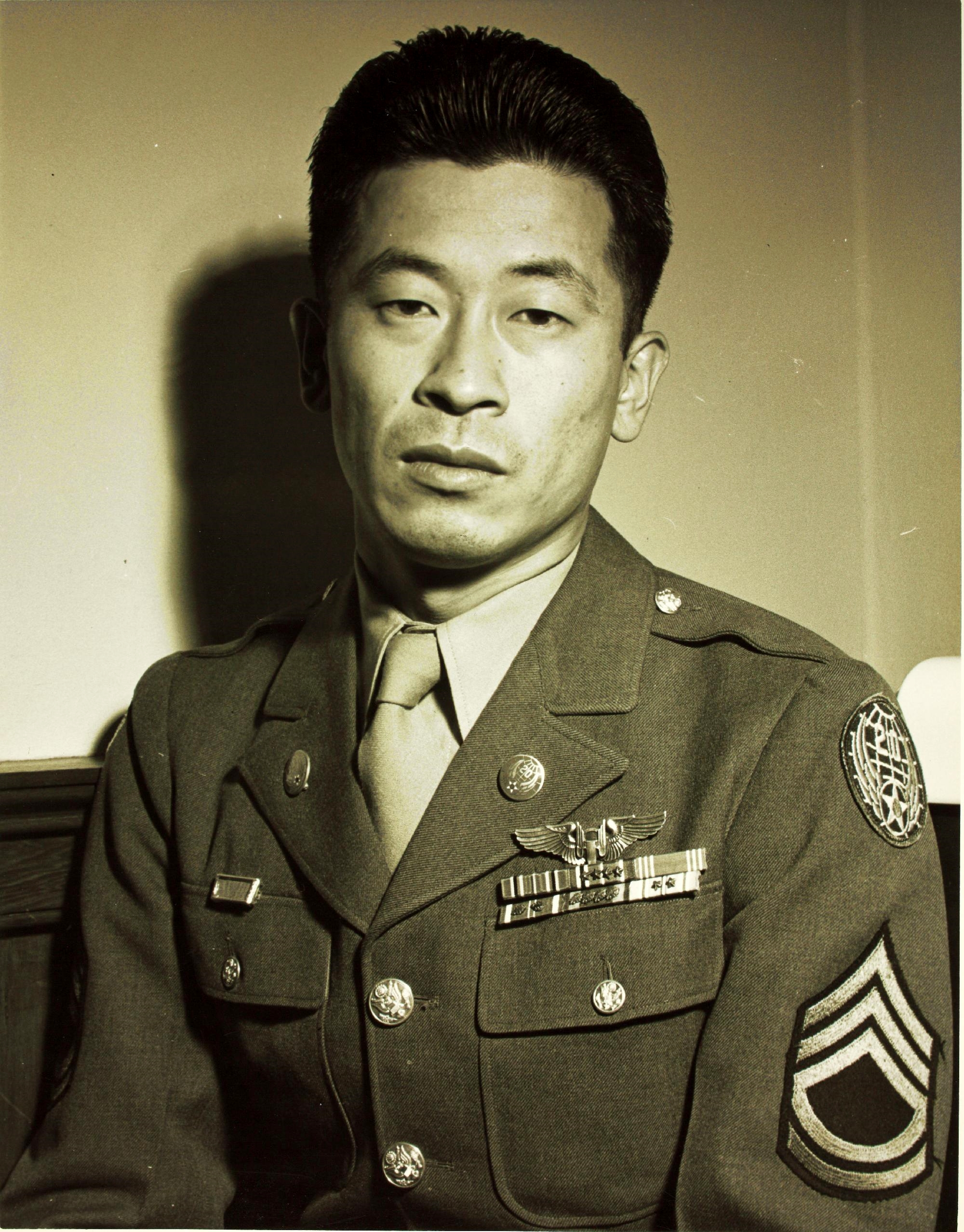 Catalog #: 10_0015967 Title: Ben Kuroki Additional Information: Ben Kuroki Distinguished Service Medal Distinguished Flying Cross (×3) Air Medal with oak leaf clusters (×5) Repository: San Diego Air and Space Museum Archive